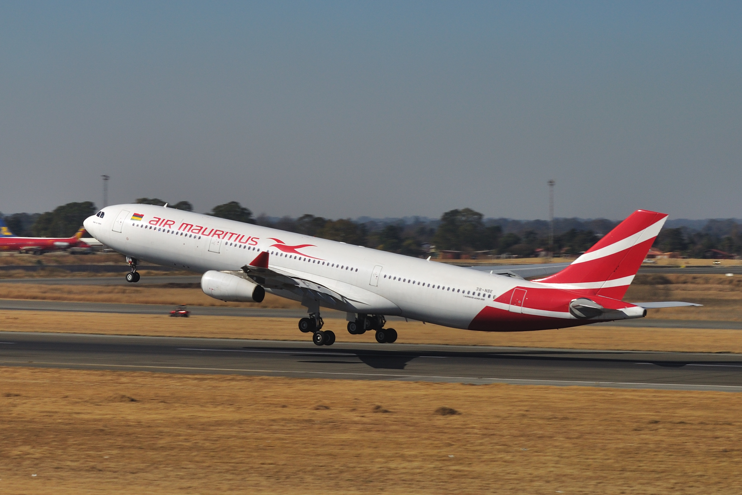 South Africa, spotting at OR Tambo International Airport